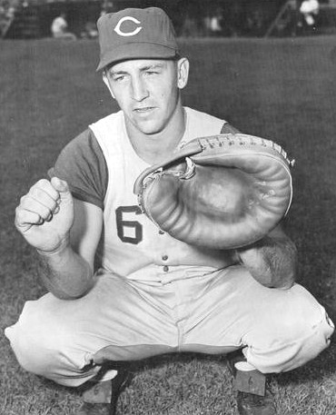 Professional baseball player Ed Bailey